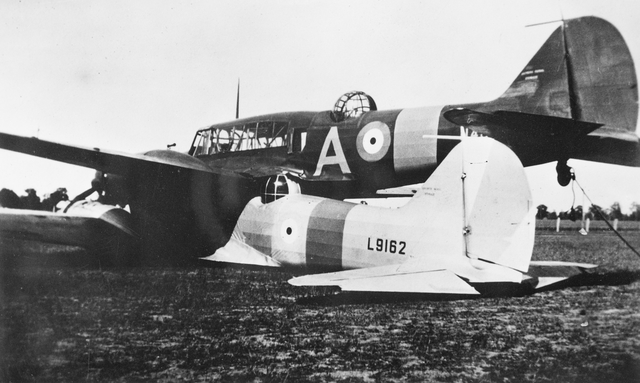 Two Avro Ansons (L9162 and N4876) "piggyback" in a paddock near Brocklesby after a mid-air collision resulted in the two aircraft being locked together and landing safely in a paddock.